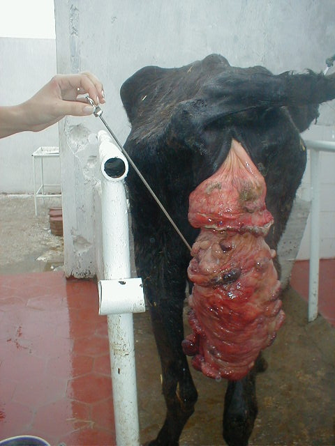 Uterine eversion (cow) with position of the non everted, non pregnant second uterine horn. Walon: Forboutaedje del velire, a ene vatche; li buzete mostere li plaece del pitite coine, ki n' a nén poirté, nén rtournêye